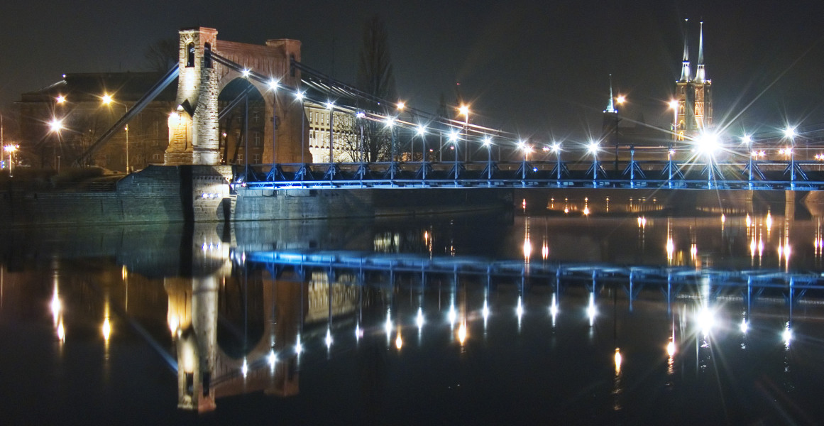 Grunwaldzki Bridge by night.